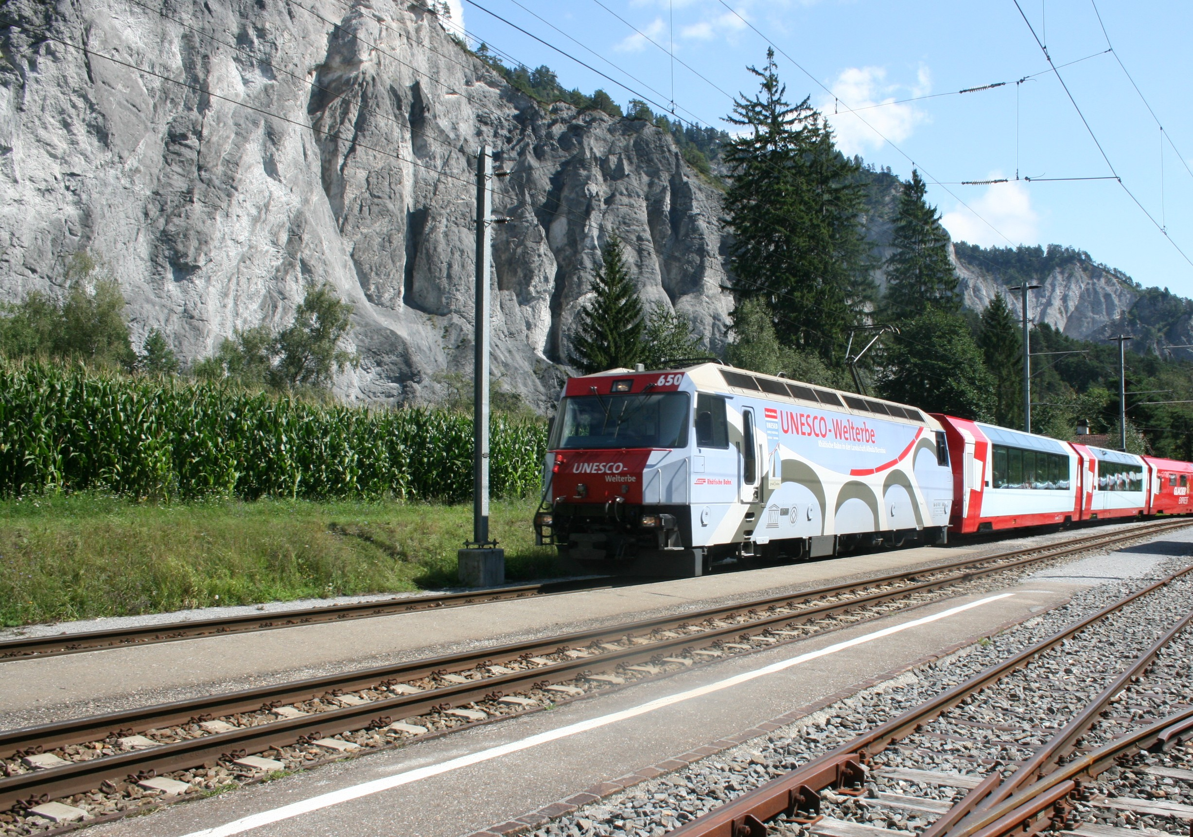 The Glacier express in the Rhine Gorge